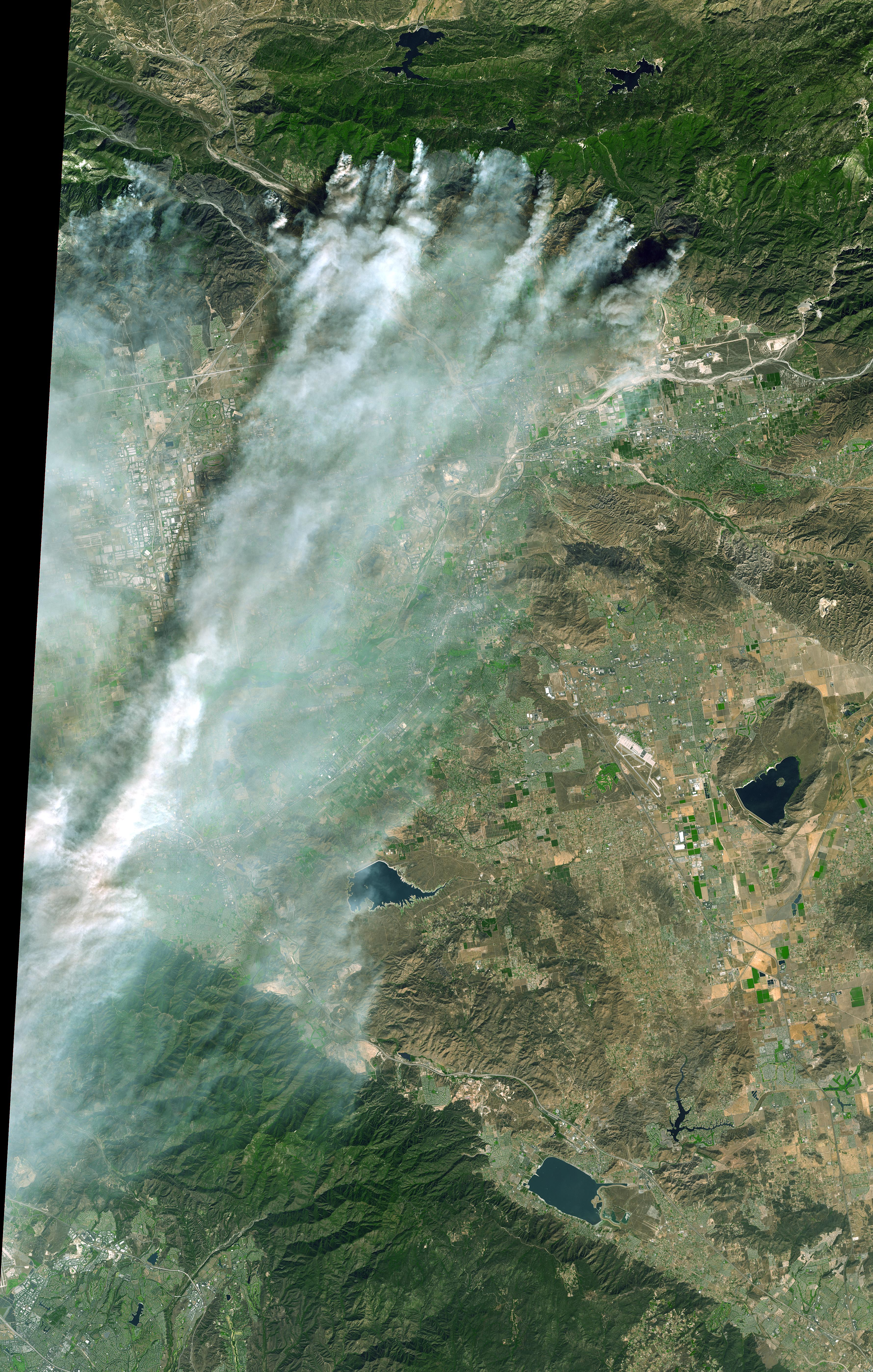 On Sunday, October 26, the Advanced Spaceborne Thermal Emission and Reflection Radiometer (ASTER) captured this image of the Old Fire/Grand Prix fire burning on either side of Interstate 15 near the Cajon Pass in the San Bernardino Mountains, roughly 80 km (50 mi) east of Los Angeles, CA. When this image was acquired, the fire had burned more than 80,000 acres, consumed 450 structures, and caused 2 fatalities. Most of the local communities were evacuated as the fire continued to spread rapidly, fanned by the intense Santa Ana winds. The image in simulated natural color shows the how the scene would look from above to a human eye.